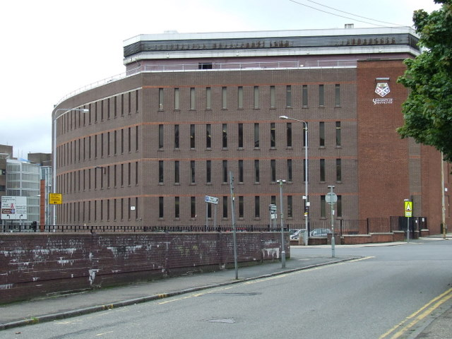 University of Strathclyde The Curran Building on Cathedral Street at Stirling Road and St James Road.